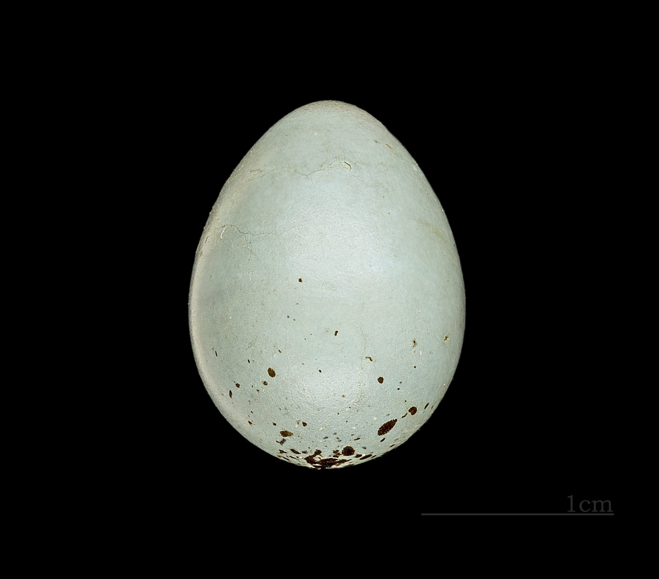 Egg of Grey-headed Bullfinch . Collection of Perrin de Brichambaut.